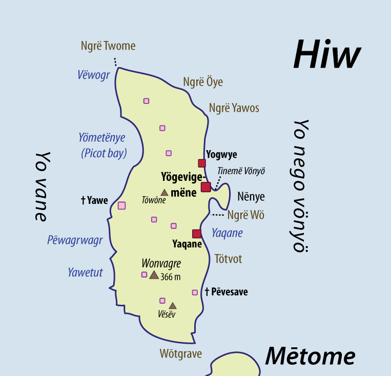 This map of Hiw (Torres Islands) shows some of the place names which are used by the local population, in Hiw. I have collected these place names while I was doing linguistic fieldwork in these islands. The spelling chosen here is a compromise between local phonologies/orthographies, and Western keyboards or usages. I would personally encourage the use of these transcriptions in further toponymic work on this area; except perhaps for the island names, which have been known under slightly different transcriptions in the literature. See Discussion page for further issues (spelling, etc). Red dots = inhabited villages; Pink dots = ancient villages, now deserted.